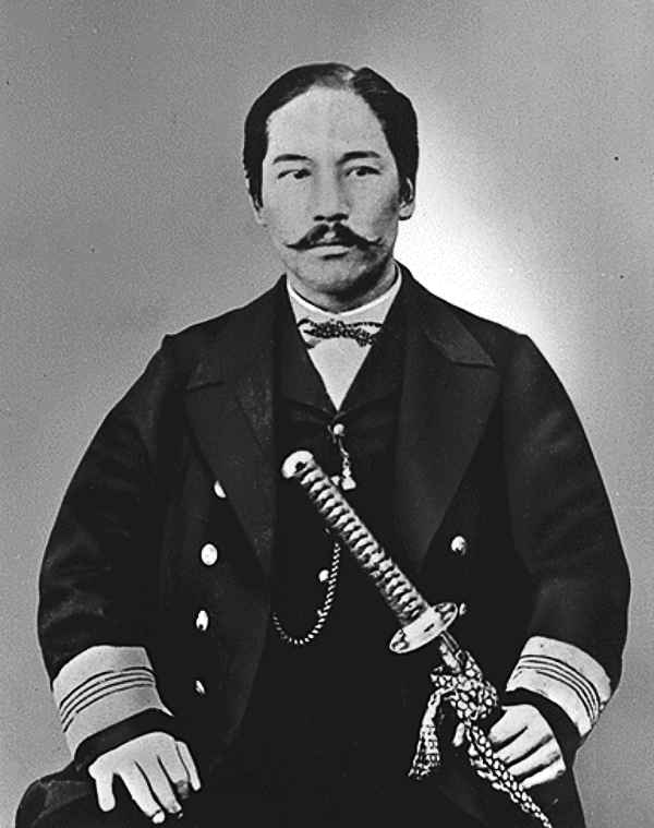 Japanese Admiral Takeaki Enomoto (1836–1908)